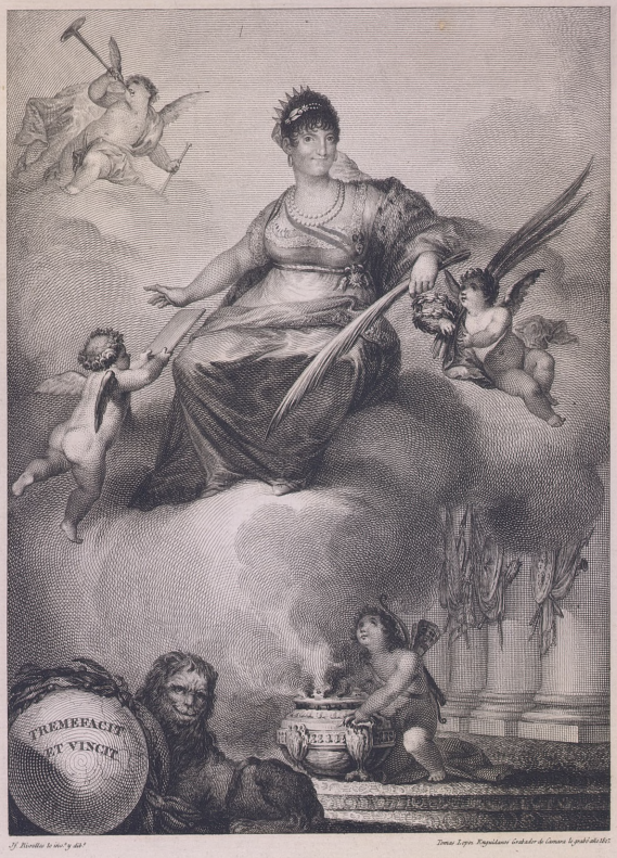 Maria Luisa of Borbon in the Temple of Glory, engraving by Tomás López Enguídanos in 1807.